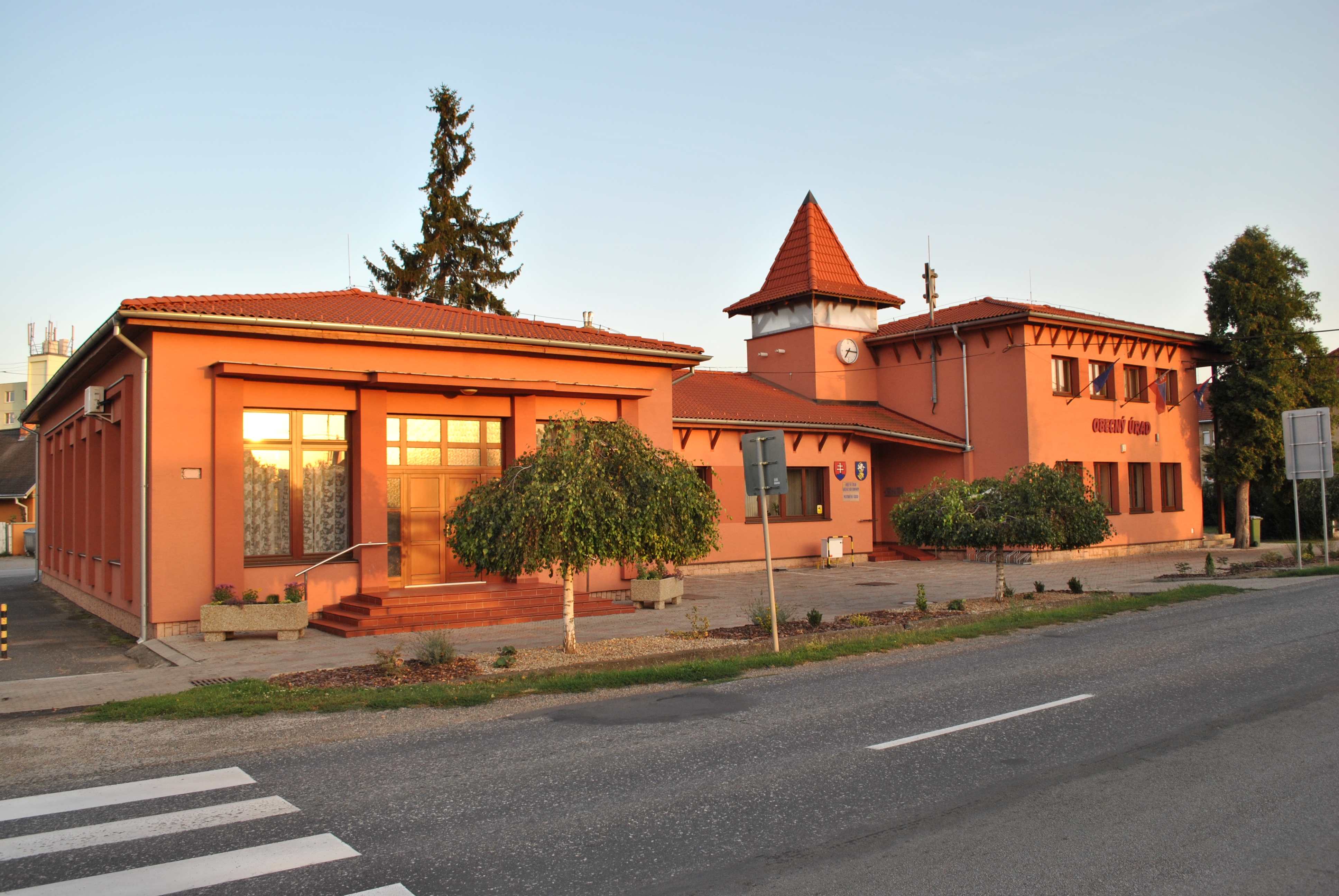 Kalná nad Hronom